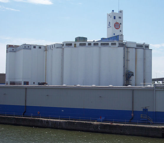 General Mills Plant Building Buffalo, Grain Storage, Grain Elevator